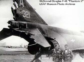 Battle-damaged F-4E-32-MC (S/N 67-321) of the 366th Tactical Fighter Wing. 1Lts. Wesley E. Zimmerman and David J. Craighead successfully recovered their crippled F-4E after receiving serious damage in engagements with MiGs, SAMs and AAA. With two hydraulic systems gone, the rudder shot away, no drag chute, half the trailing edge slat on each side destroyed, and moderate damage to the right engine and wings, they nursed their fighter home. Despite the high speed required by the no-flap approach, Lt. Zimmerman made a successful landing and barrier engagement. (U.S. Air Force photo)